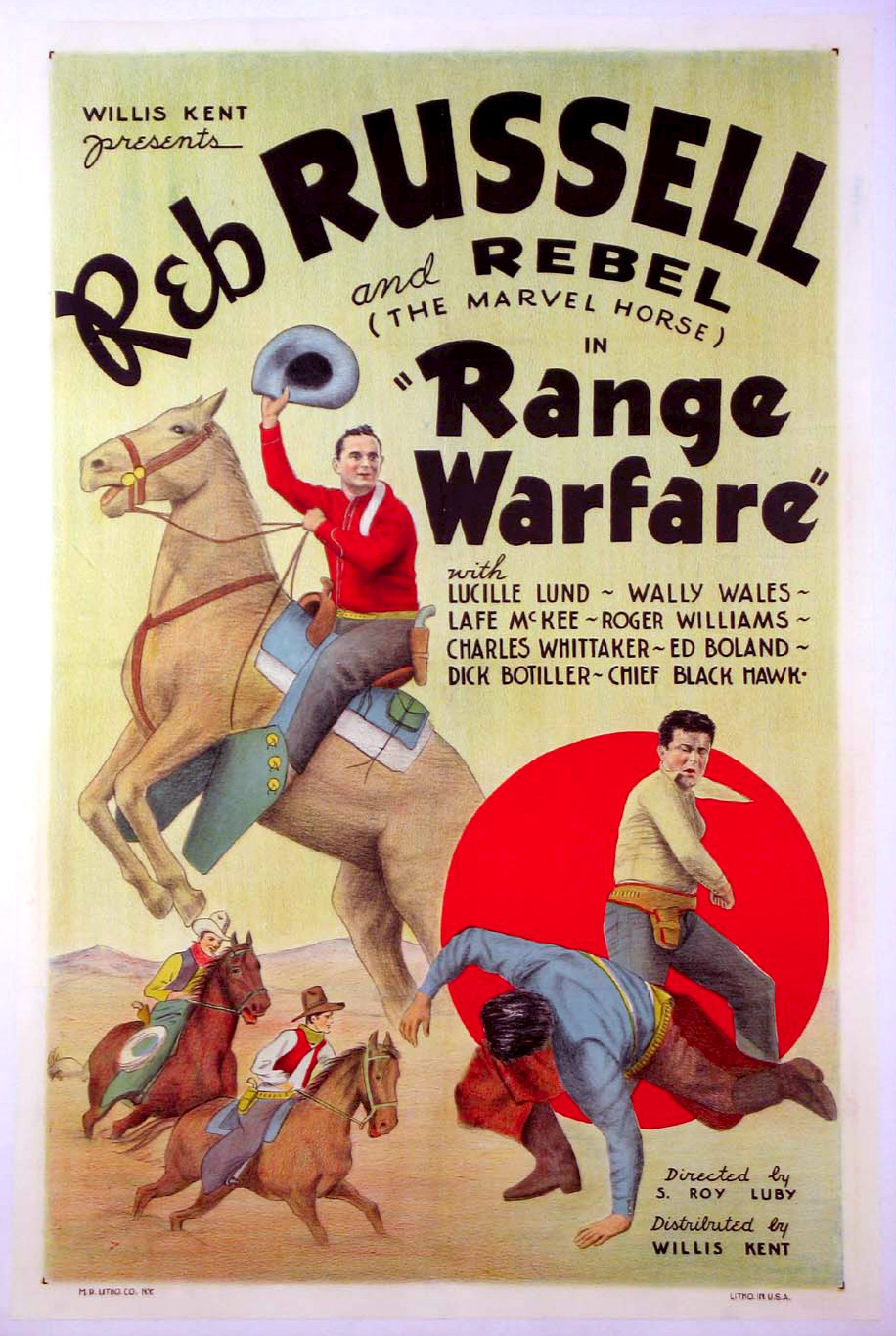 Poster for the 1934 film Range Warfare with Lafayette Russell. There are no copyright marks on the item, which can be seen at the link. At bottom left is M R Litho Co, NY-they printed the poster. At bottom right is Litho in USA.